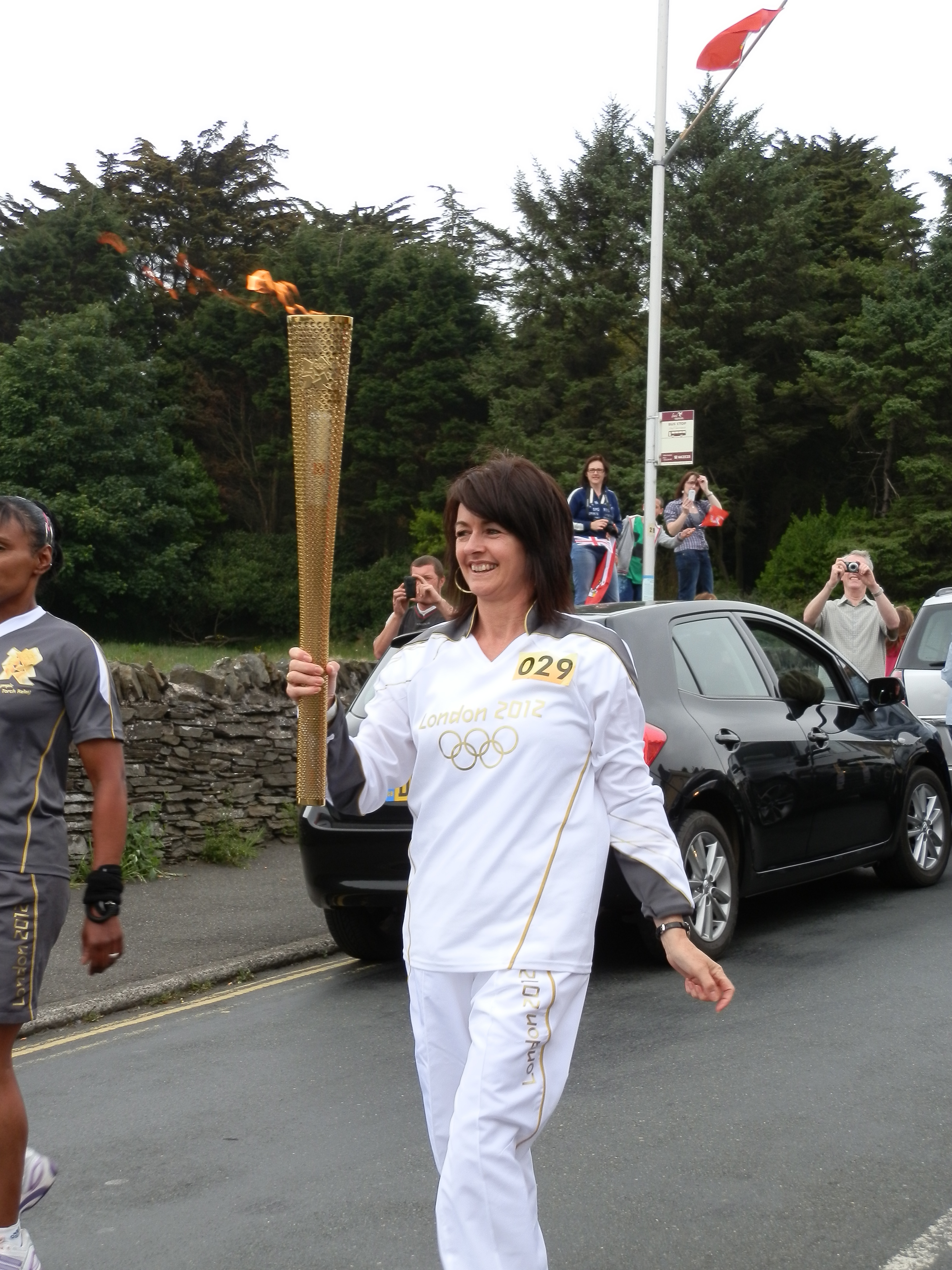 The Olympic Torch for the 2012 Summer Olympics is carried through Onchan, Isle of Man on Day 15 of the relay.